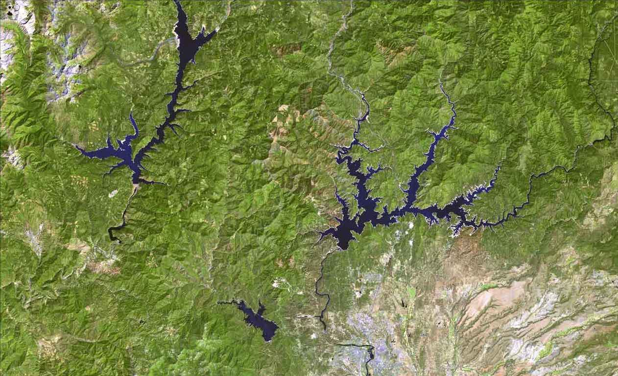 Satellite photo of Whiskeytown–Shasta–Trinity National Recreation Area Units, northern Calfornia. Center: Shasta Lake-Shasta Unit; lower center Whiskeytown Lake-Whiskeytown Unit; upper left: Trinity Lake-Trinity Unit. Also showing some of the Shasta-Trinity National Forest area. The raw satellite imagery shown in these images was obtain from NASA and/or the US Geological Survey. Post-processing and production by